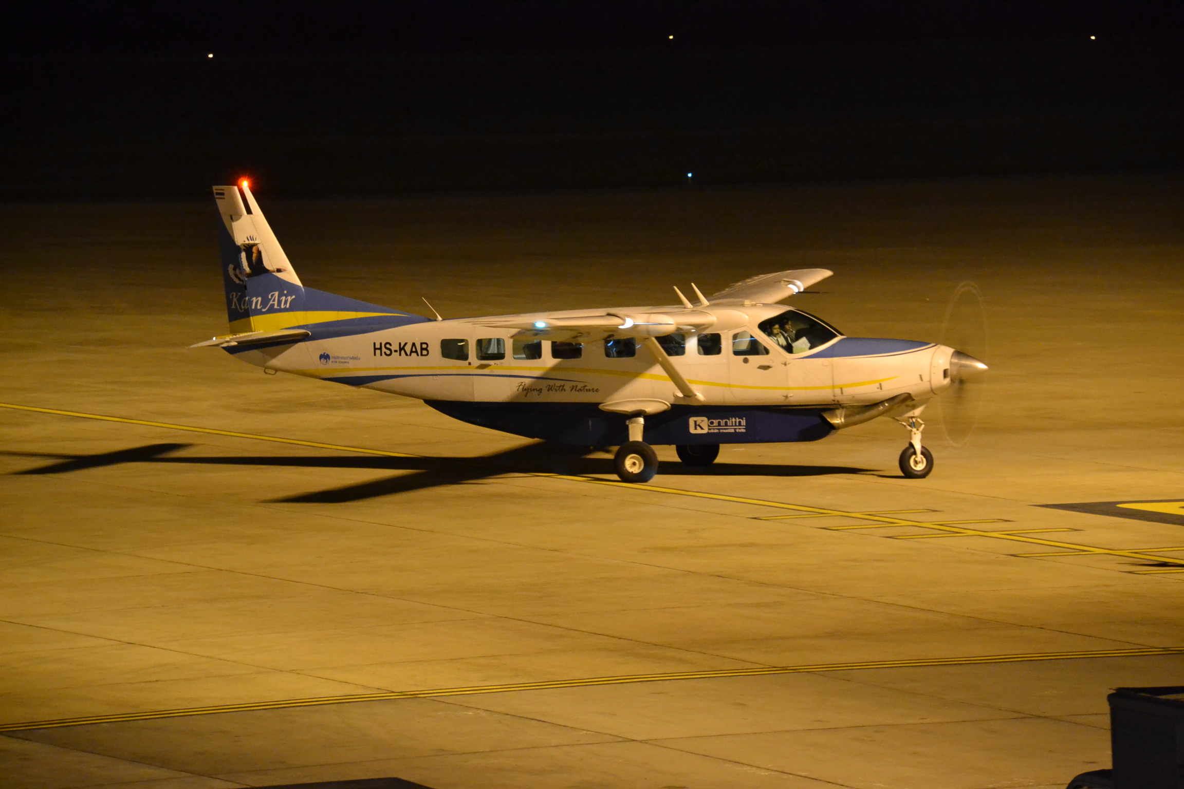 Cessna 208B of Kan Air taxying for departure at Khon Kaen-KKC,Thailand,03/05/14.